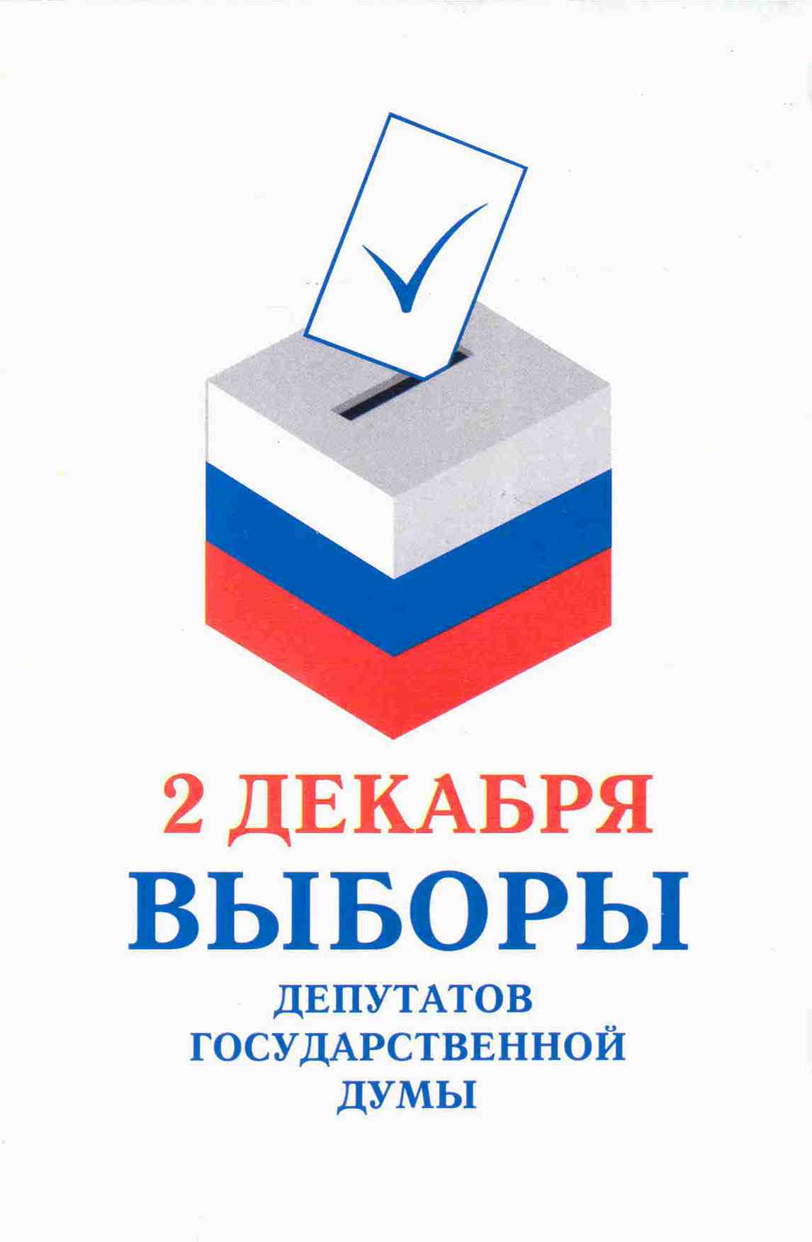 Russian voter invitation card, Russian parliamentary elections, December 2, 2007. Obverse.